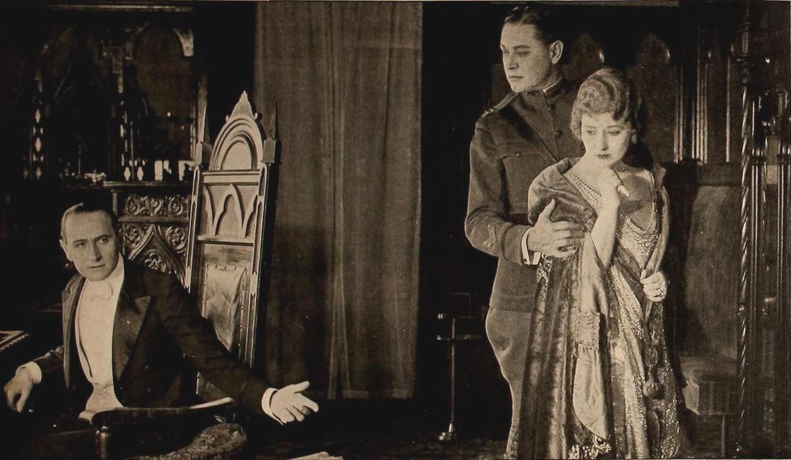 Still for the American film The Devil's Pass Key with Sam de Grasse, Clyde Fillmore, and Una Trevelyn, from an ad on page 2845 of the March 27, 1920 Motion Picture News. The ad had this caption for the still: The Husband: "Your senseless passion for clothes has plunged three human beings into the bottomless pit. Why should I care where, or with whom, you go?"